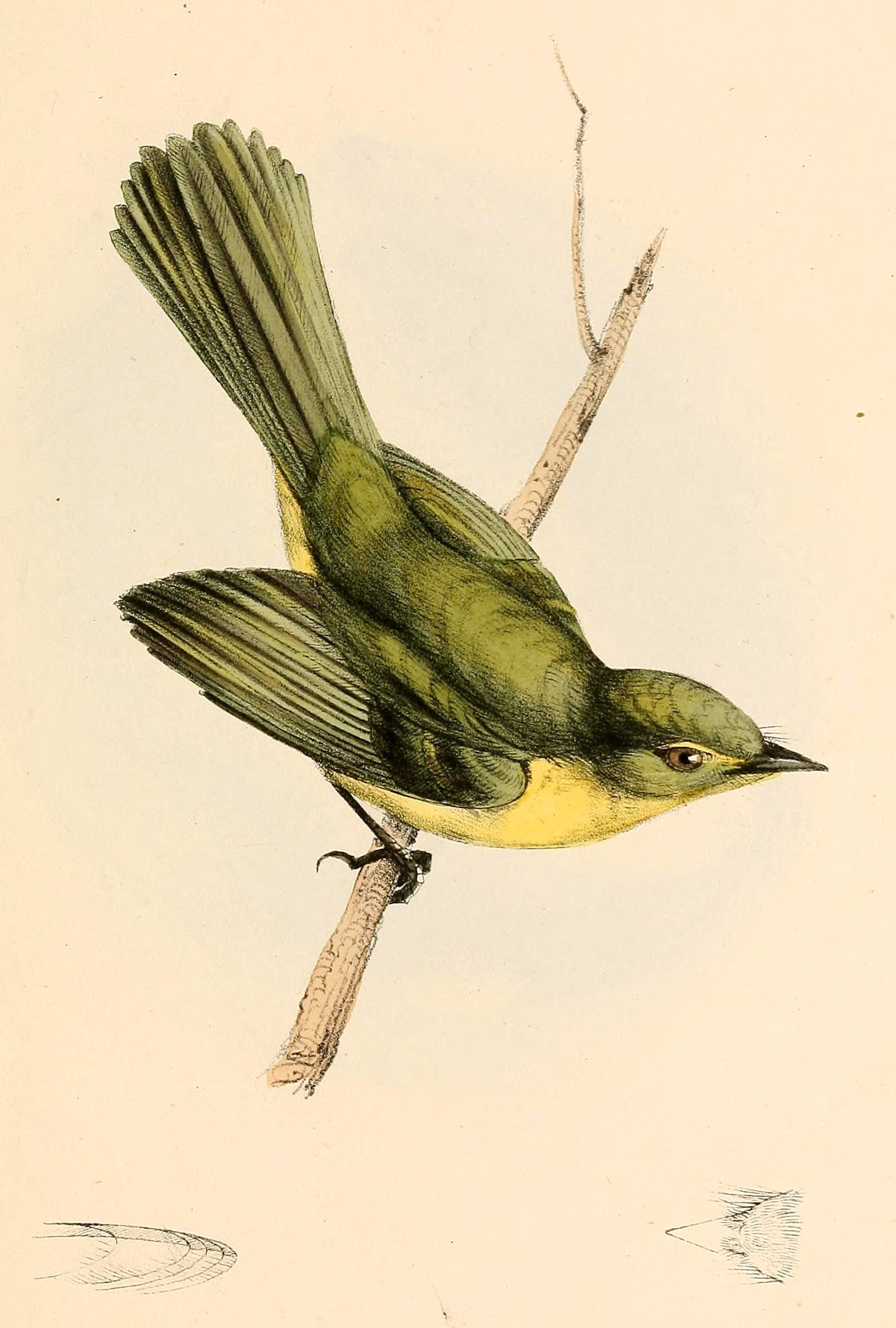 Tyrannula modesta = Capsiempis flaveola flaveola (Subspecies of Yellow Tyrannulet)